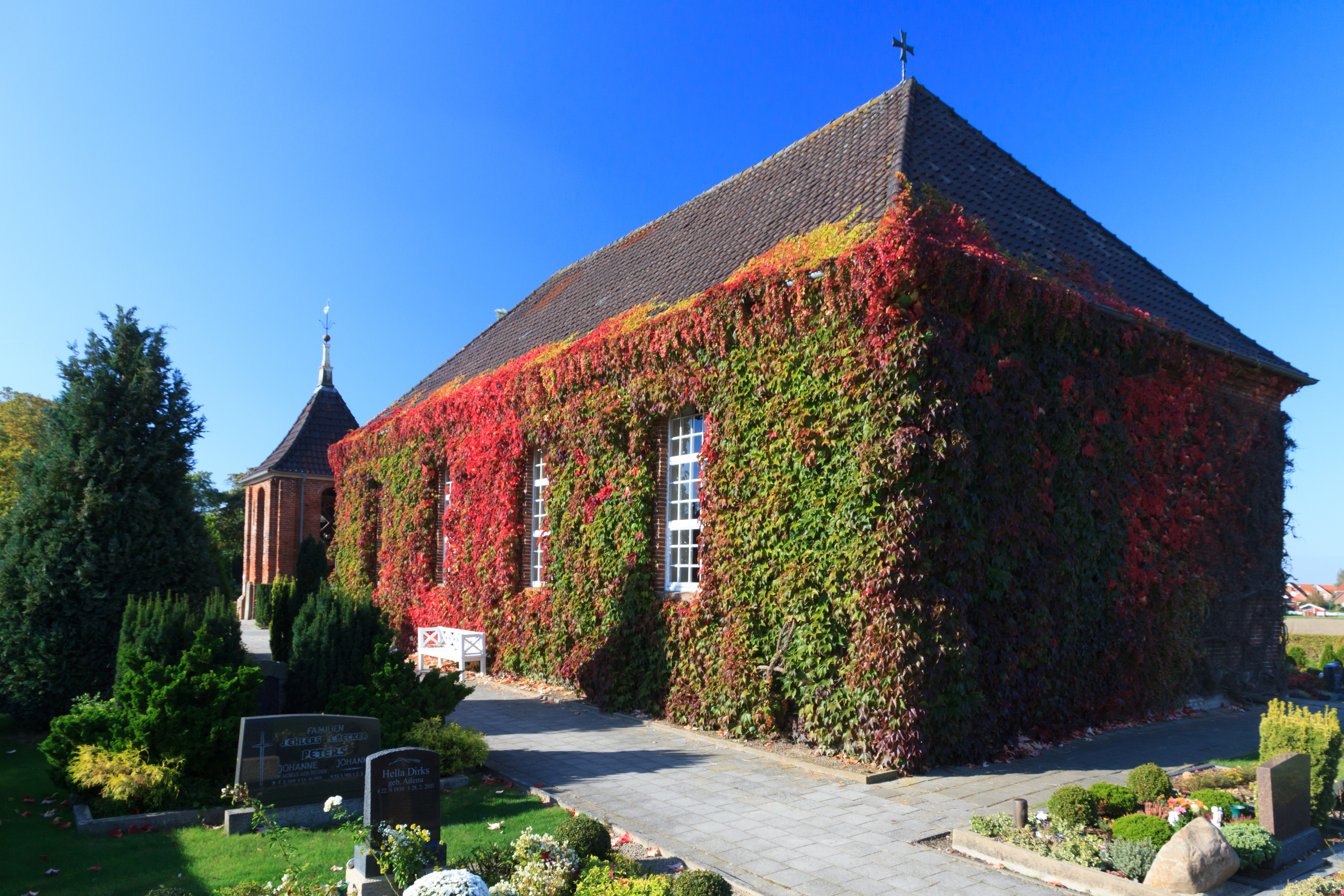 Carolinensiel church